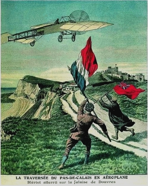 Commemorative poster. Inscription: The crossing of the English Channel in an airplane. Blériot lands on the Cliffs of Dover.